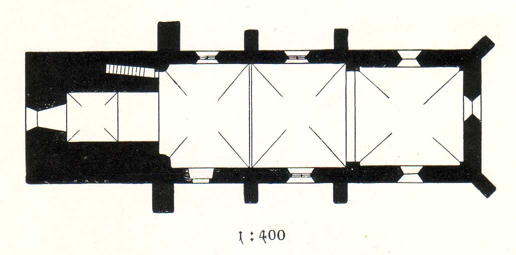 This is a photograph of an architectural monument.It is on the list of cultural monuments of Preußisch Oldendorf